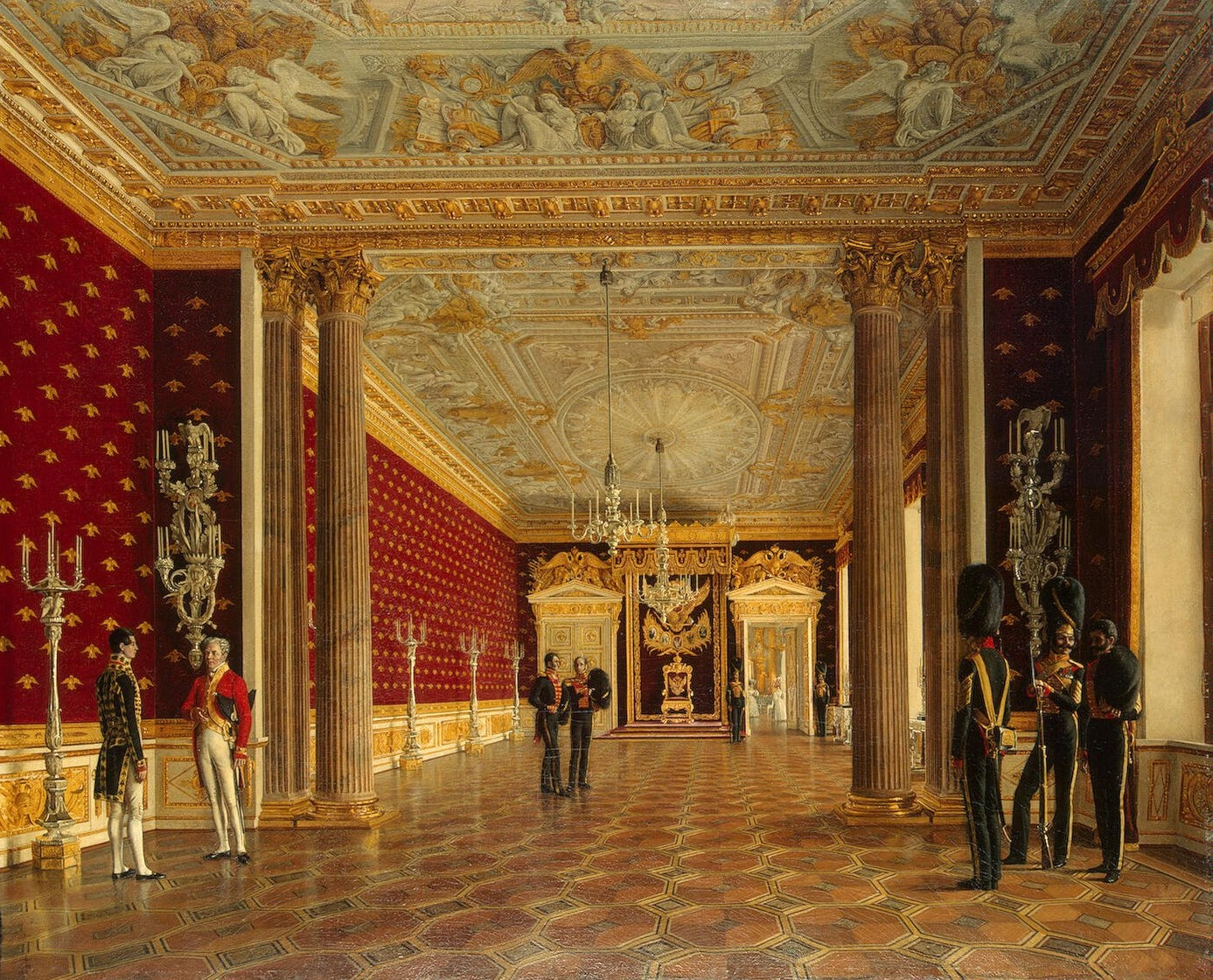 Interiors of the Winter Palace. The Throne Room of Empress Maria Fiodorovna. Oil on canvas. 91.5x120 cm